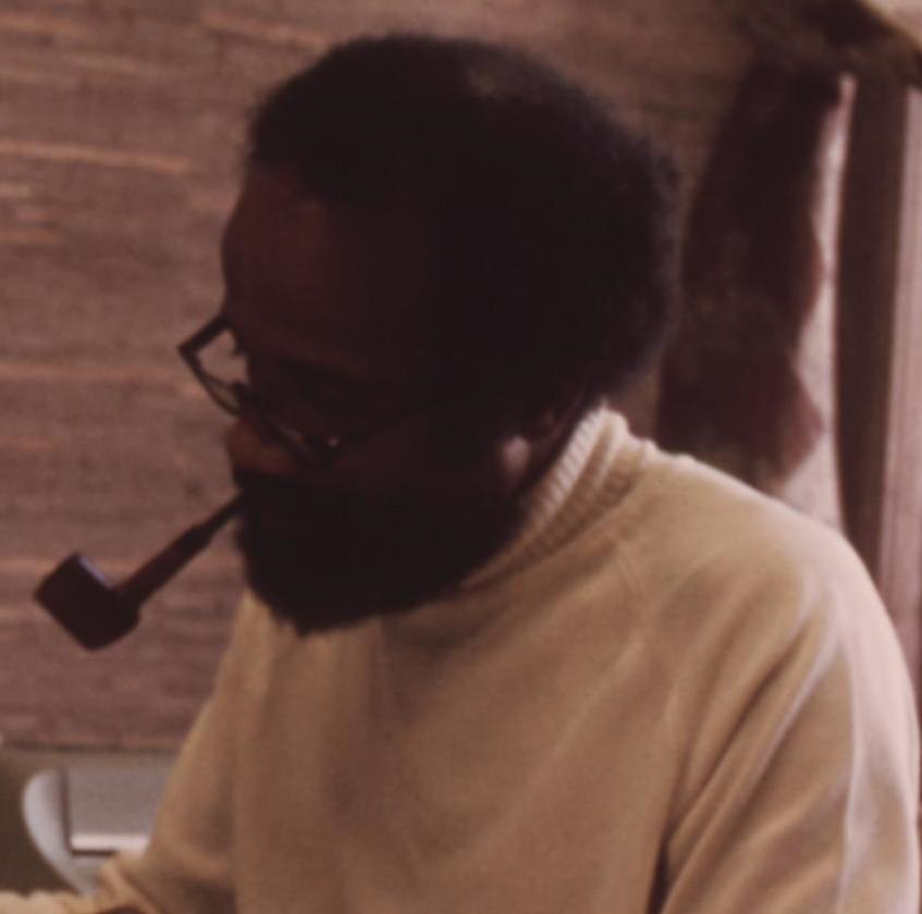 Original Caption: Lerone Bennett, Well Known Black Writer Who Is Senior Editor At Ebony Magazine, In His Office At Johnson Publishing Company In Chicago. The Firm Also Publishes Jet, Black World, Black Stars And Ebony Jr. As The Top Black Owned Business In Chicago, The Firm Recorded 1972 Sales Of $23.1 Million. Chicago Is Believed To Be The Black Business Capital Of The Country With 14 Of The Top 100 Black Owned Businesses Compared To 13 For New York City, 10/1973 U.S. National Archives’ Local Identifier: 412-DA-13798 Photographer: White, John H, 1945- Subjects: African-American Chicago (Cook county, Illinois, United States) Environmental Protection Agency Project DOCUMERICA Persistent URL: Repository: Still Picture Records Section, Special Media Archives Services Division (NWCS-S), National Archives at College Park, 8601 Adelphi Road, College Park, MD, 20740-6001. For information about ordering reproductions of photographs held by the Still Picture Unit, visit: Reproductions may be ordered via an independent vendor. NARA maintains a list of vendors at Access Restrictions: Unrestricted Use Restrictions: Unrestricted